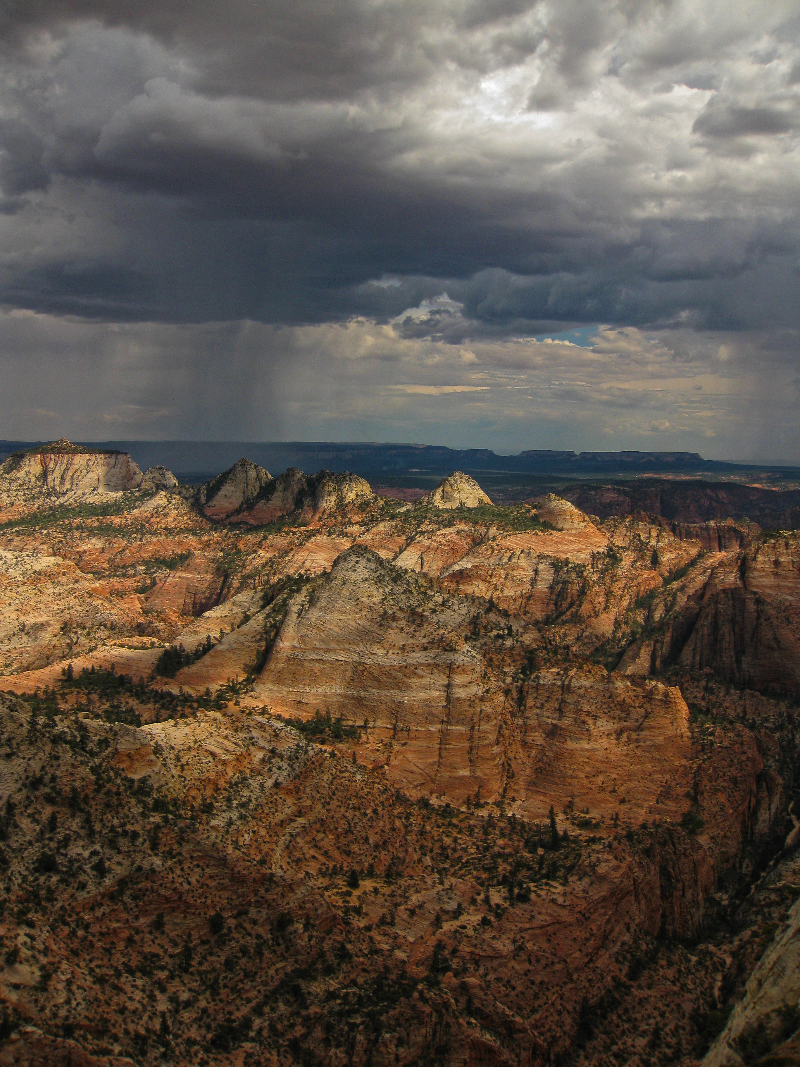 Rain moves across the plateau on 8/26/12. NPS Photo/Jonathan Fortner